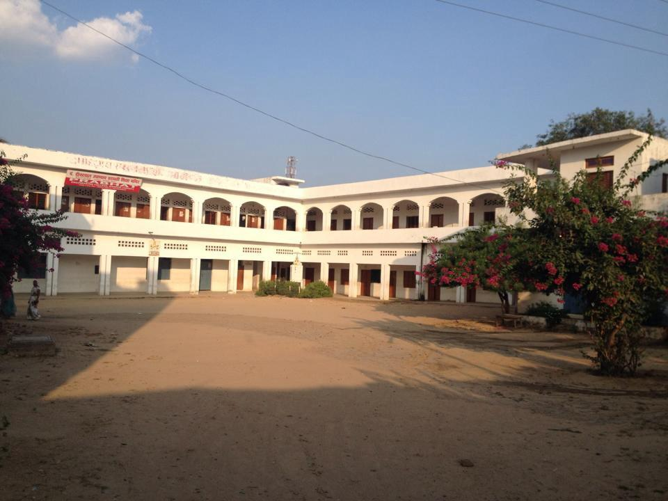 XyppbBuildinSchool28June2017